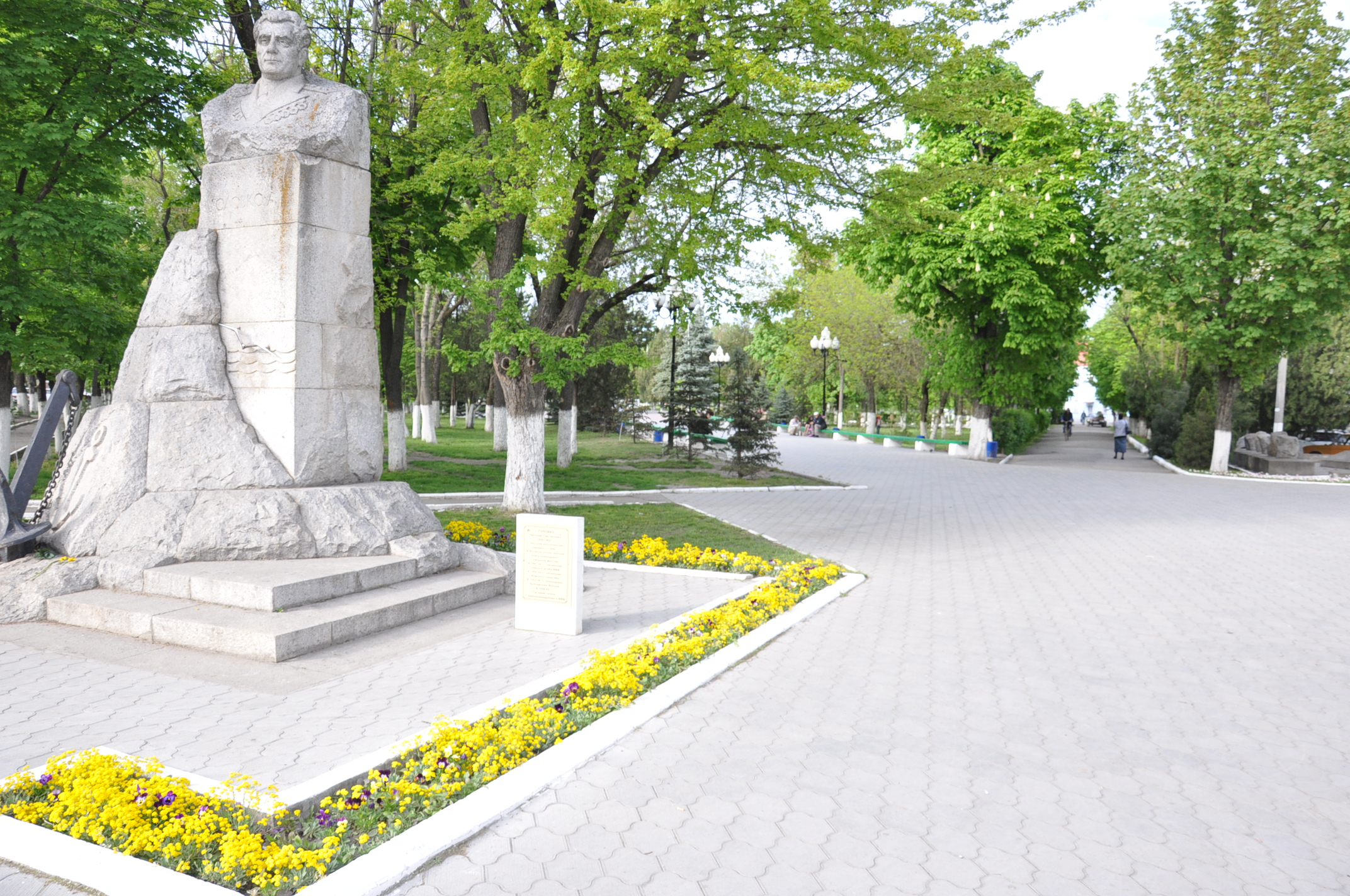 памятник А. Г. Головко